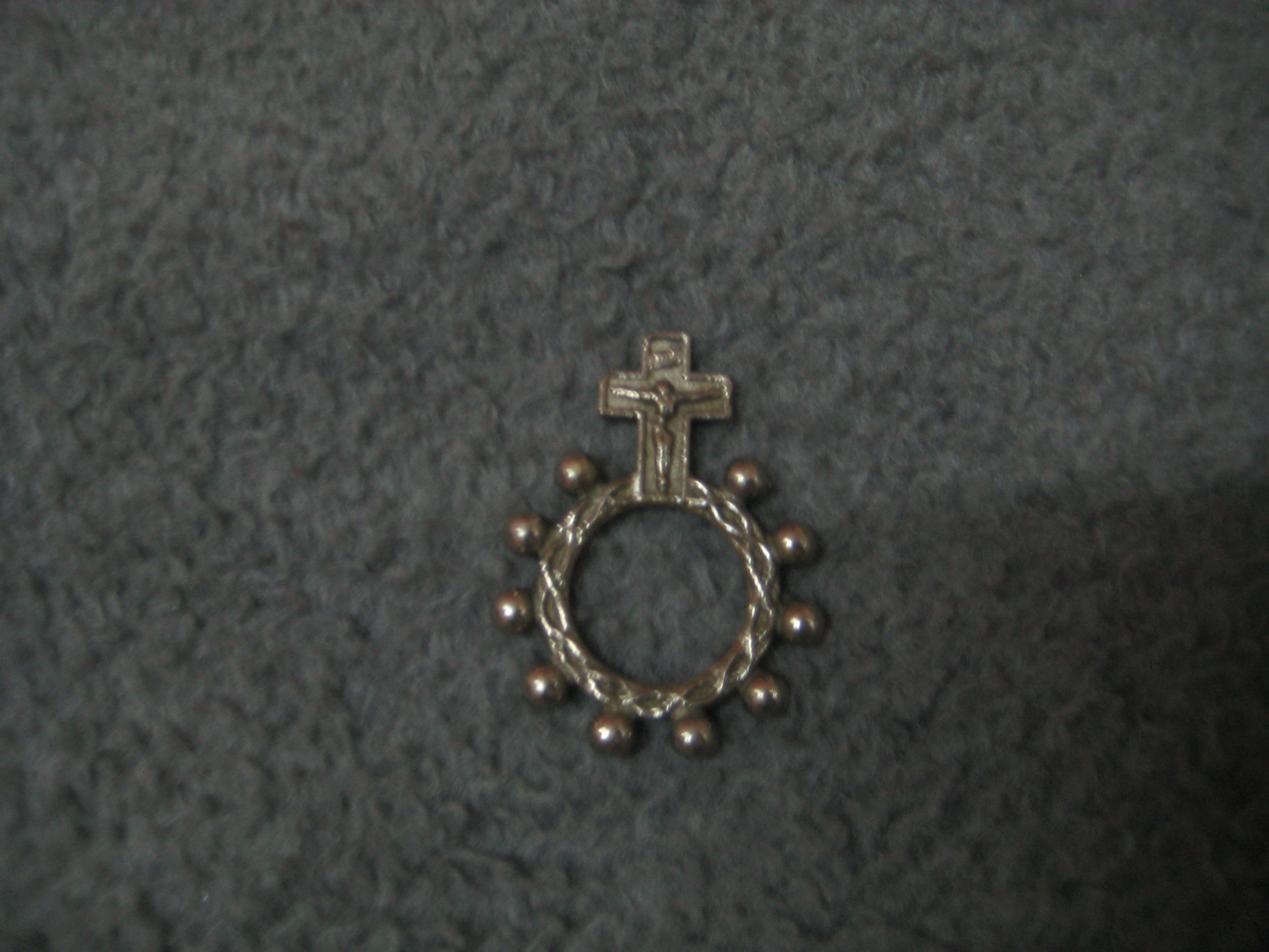 Rosary Ring 10